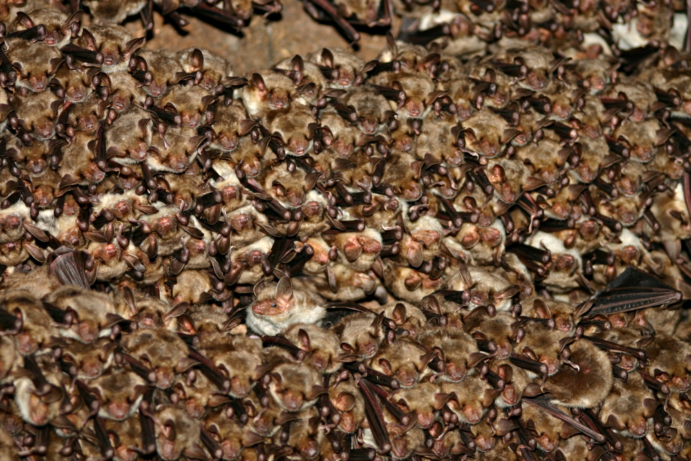 Colony of greater mouse-eared bats, Fertőszentmiklós, Hungary